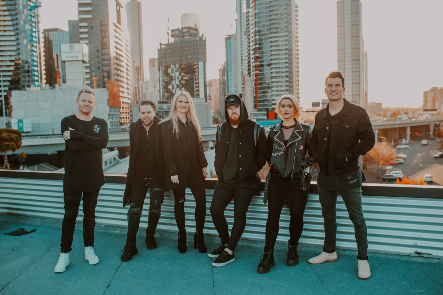 Singers of the band Planetshakers